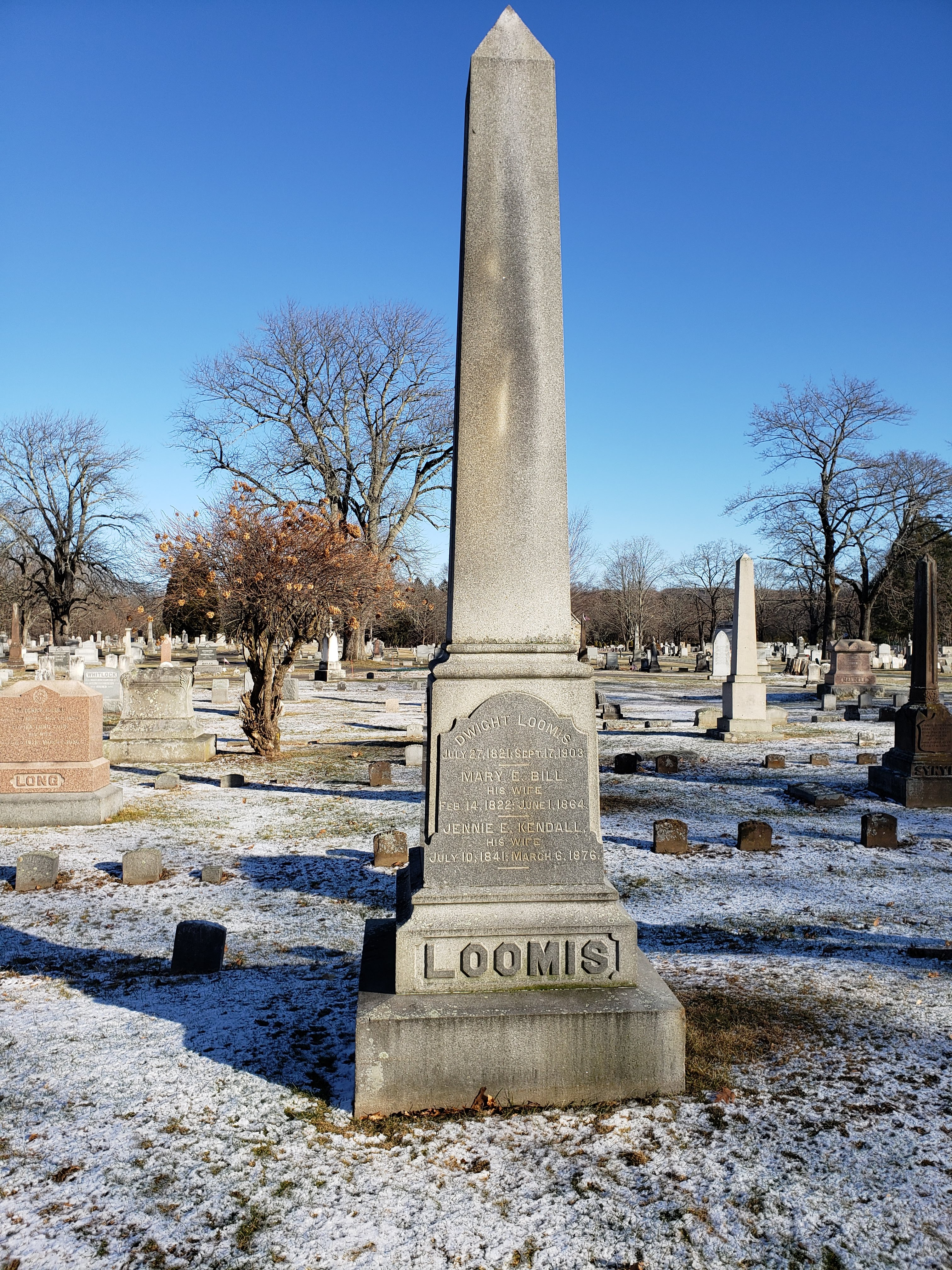 Dwight Loomis gravestone in Grove Hill Cemetery in Rockville, Connecticut. Photo taken January 2020.